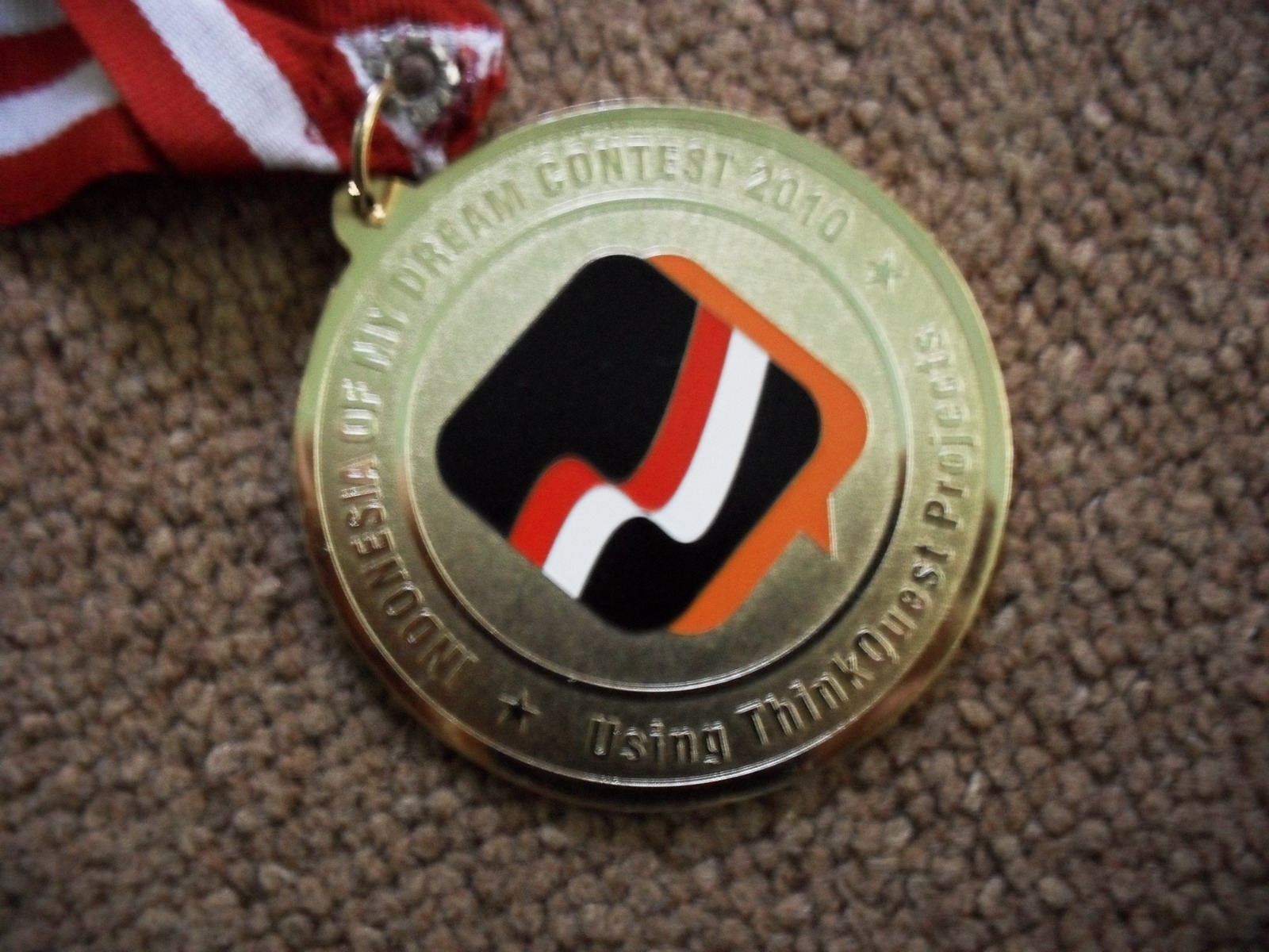 Indonesia of my Dream Contest 2010 Medal